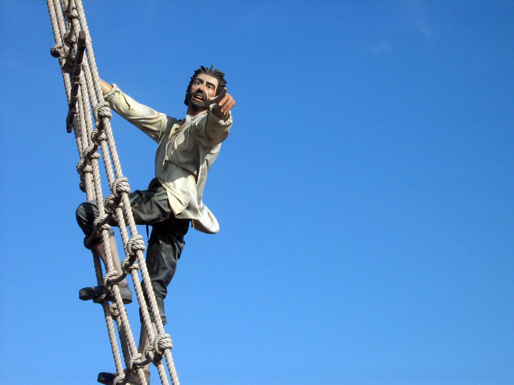 Statue of Rodrigo de Triana in the Wharf of the Caravels.